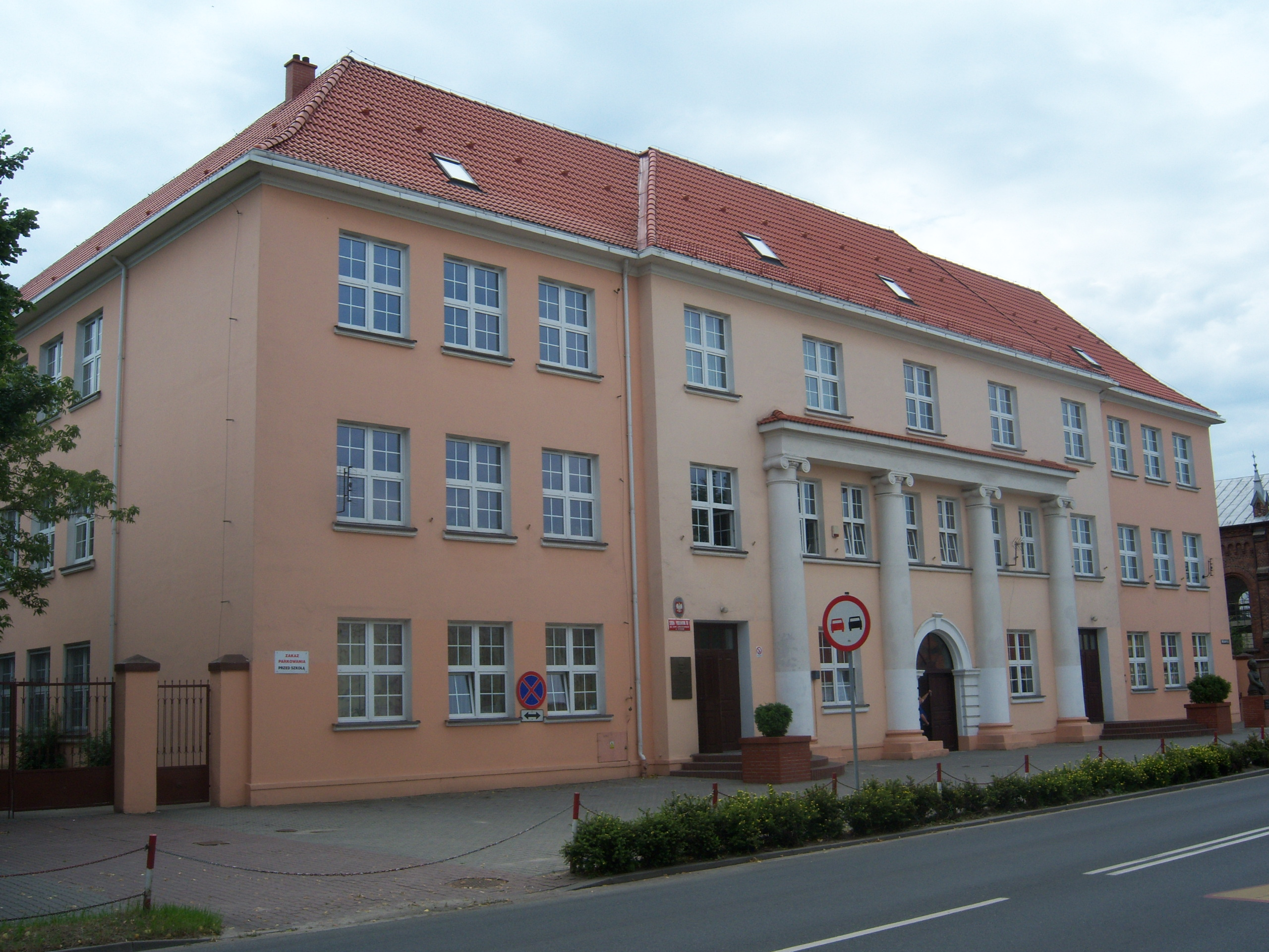 Primary School No. 1 name Urbanowska Sophia in Konin at Kolska Street